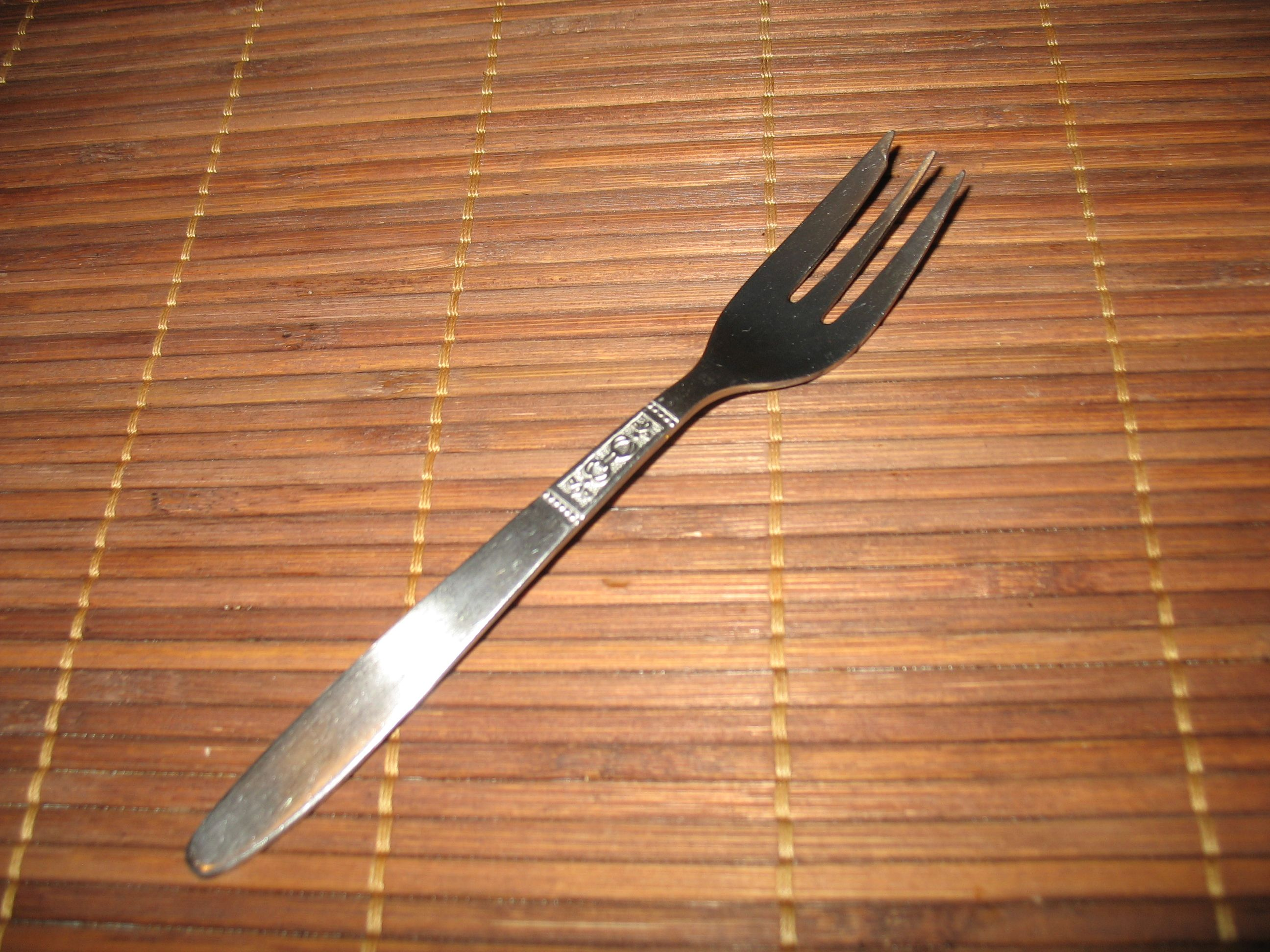 A fork for cake